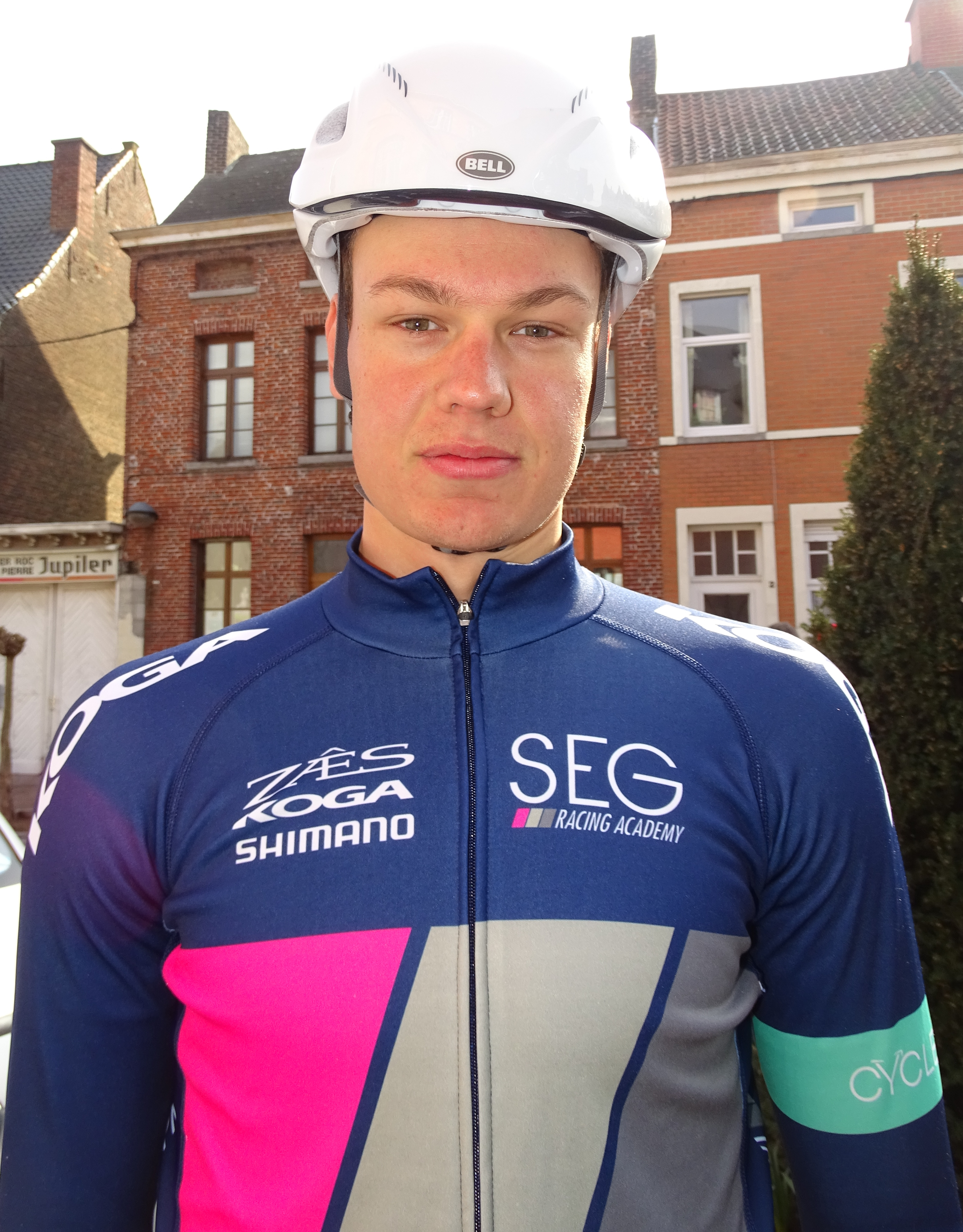 Triptyque des Monts et Châteaux 2016 Depicted person: Henrik Evensen – Norwegian cyclist Depicted team: SEG Racing Academy